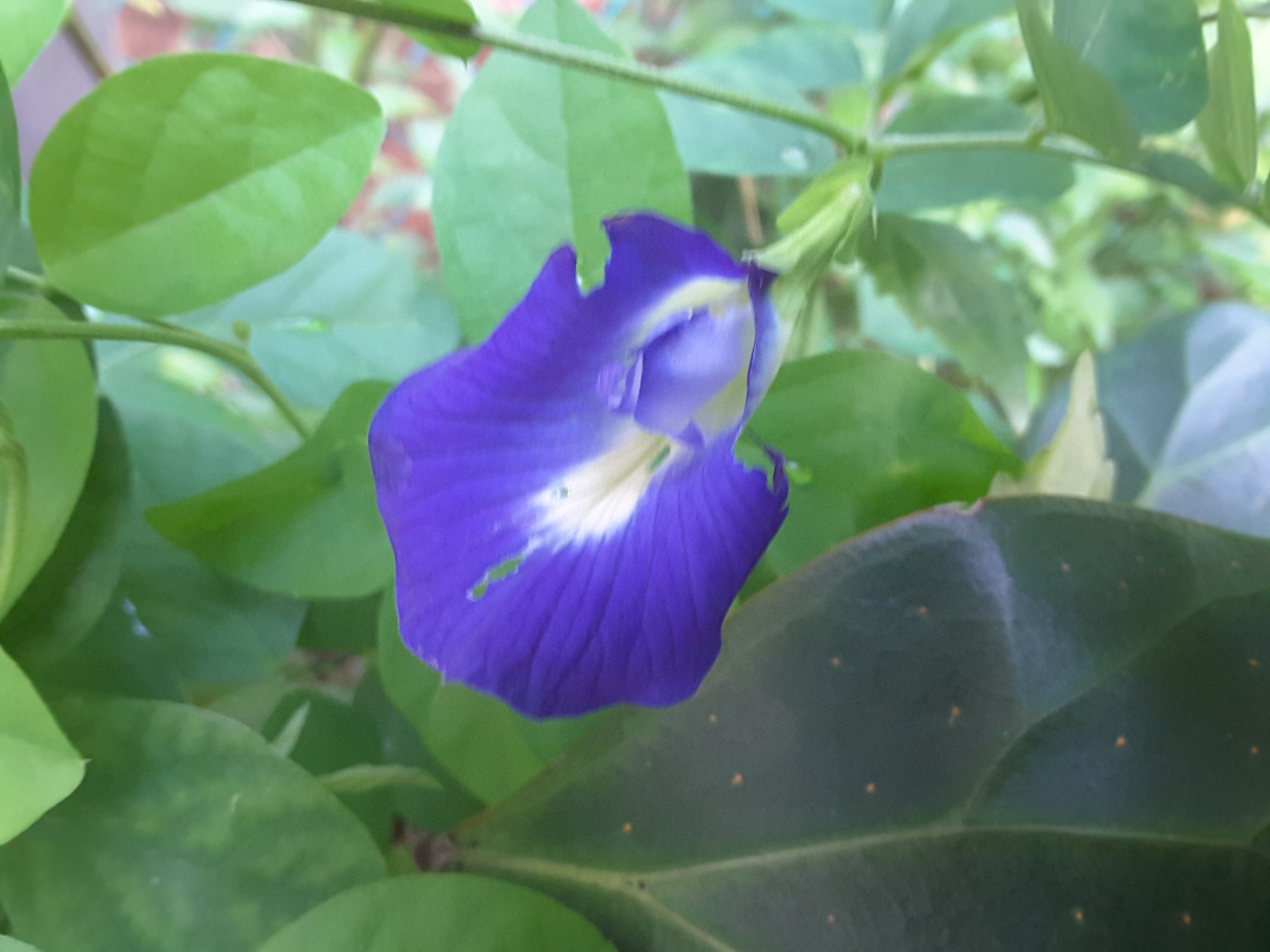 Butterfly pea flower in Singapore